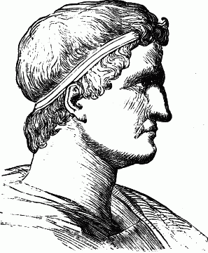 Cornelius Sulla